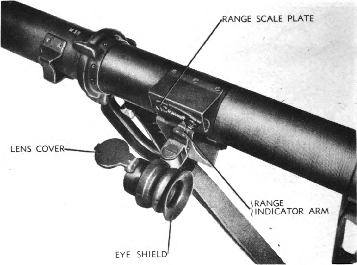 Reflecting Sight of M18 Bazooka